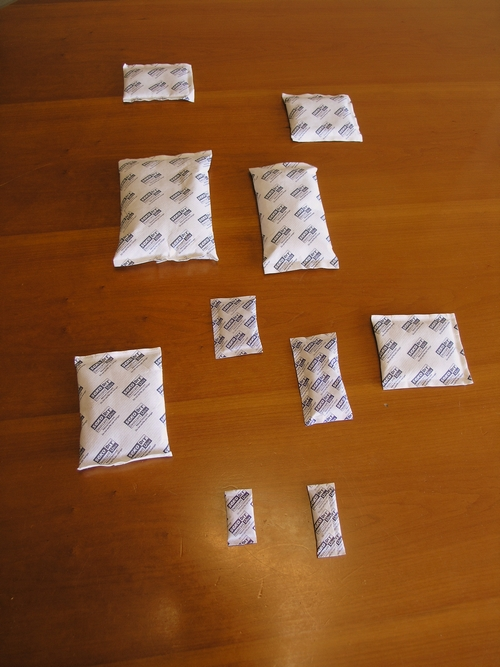 desiccants sodepac